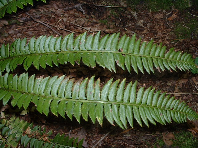 Polystichum lonchitis (Northern holly fern), Pancake Bay Provincial Park, Ontario, Canada